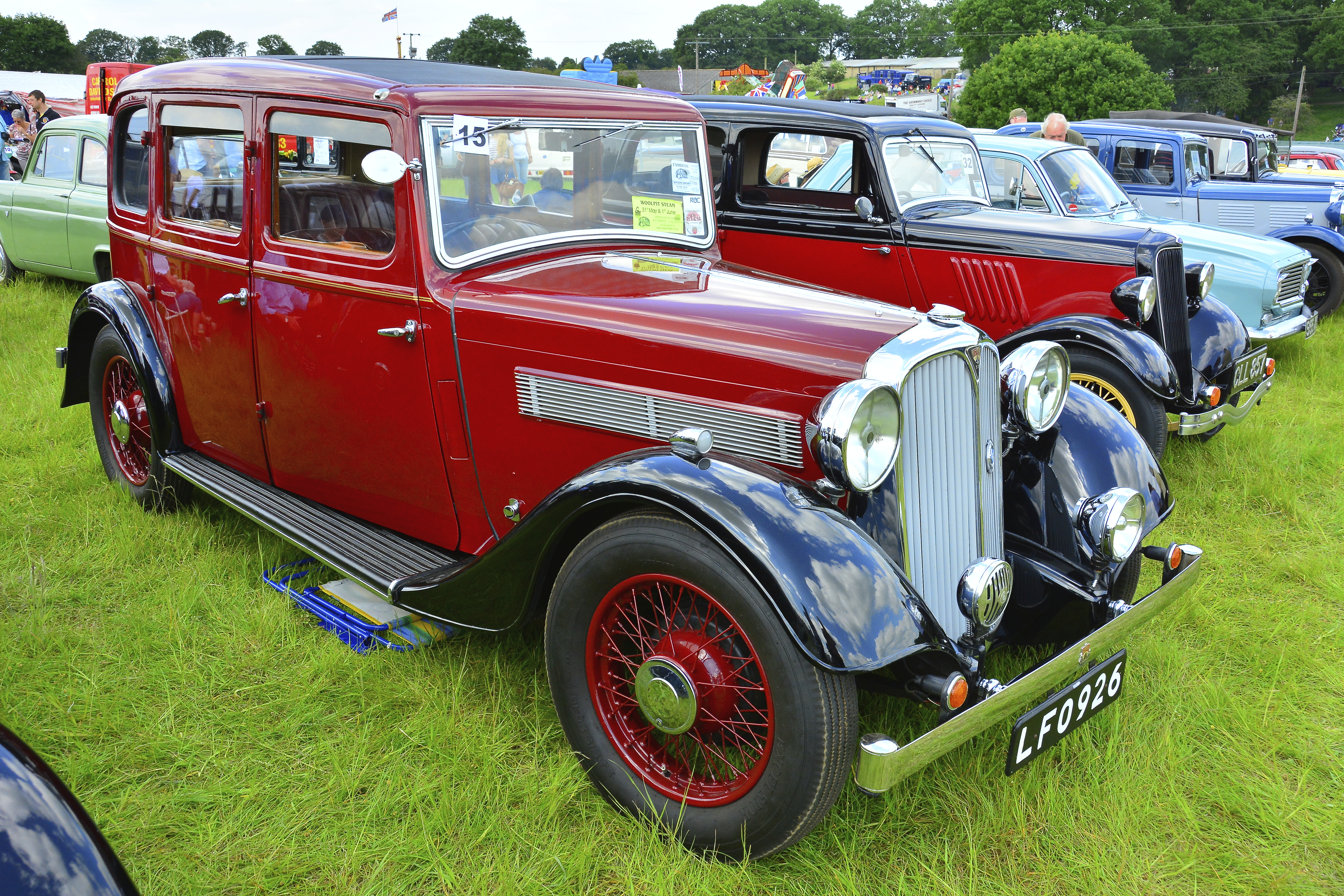 1936 Rover 12 6-light saloon(DVLA)Woolpit Steam Rally, Classic Cars